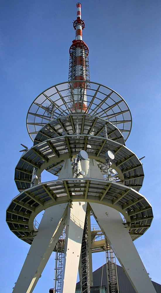 Transmitter, Radio Station 'Inselsberg'